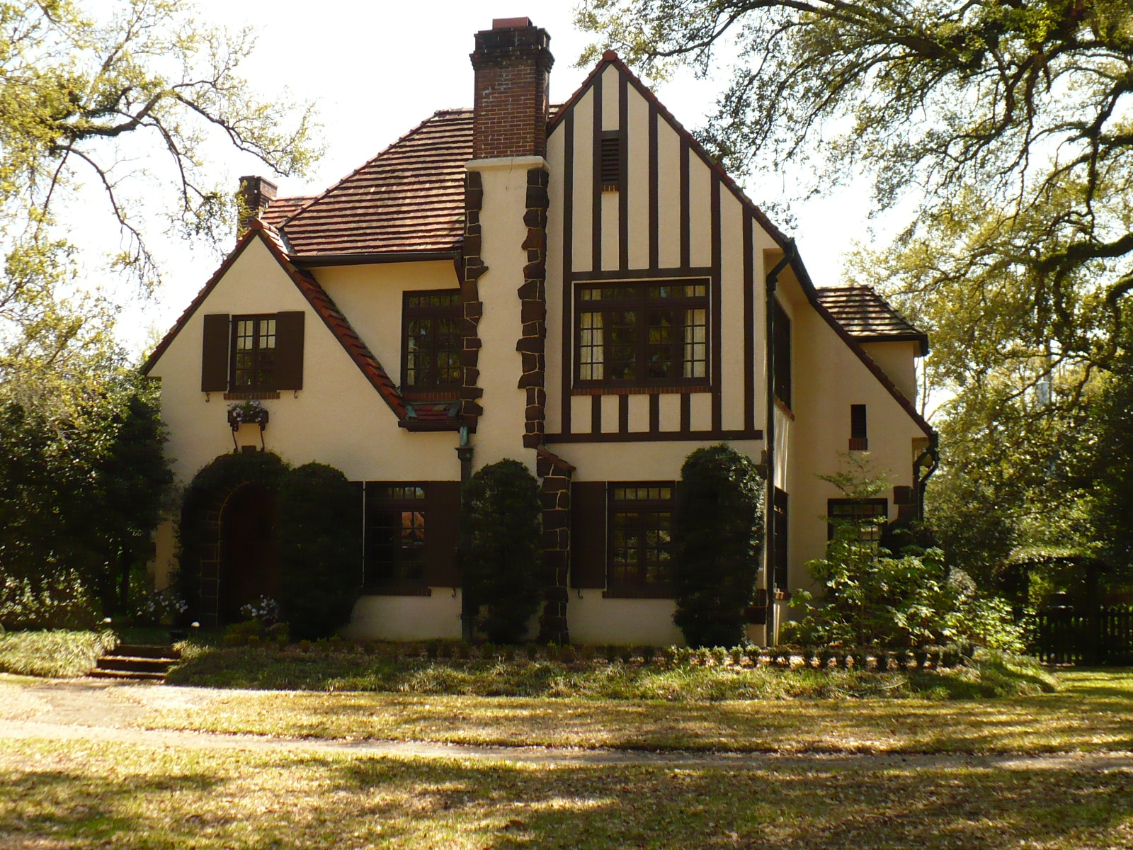 214 Lanier Avenue, within the Ashland Place Historic District in Mobile, Alabama.